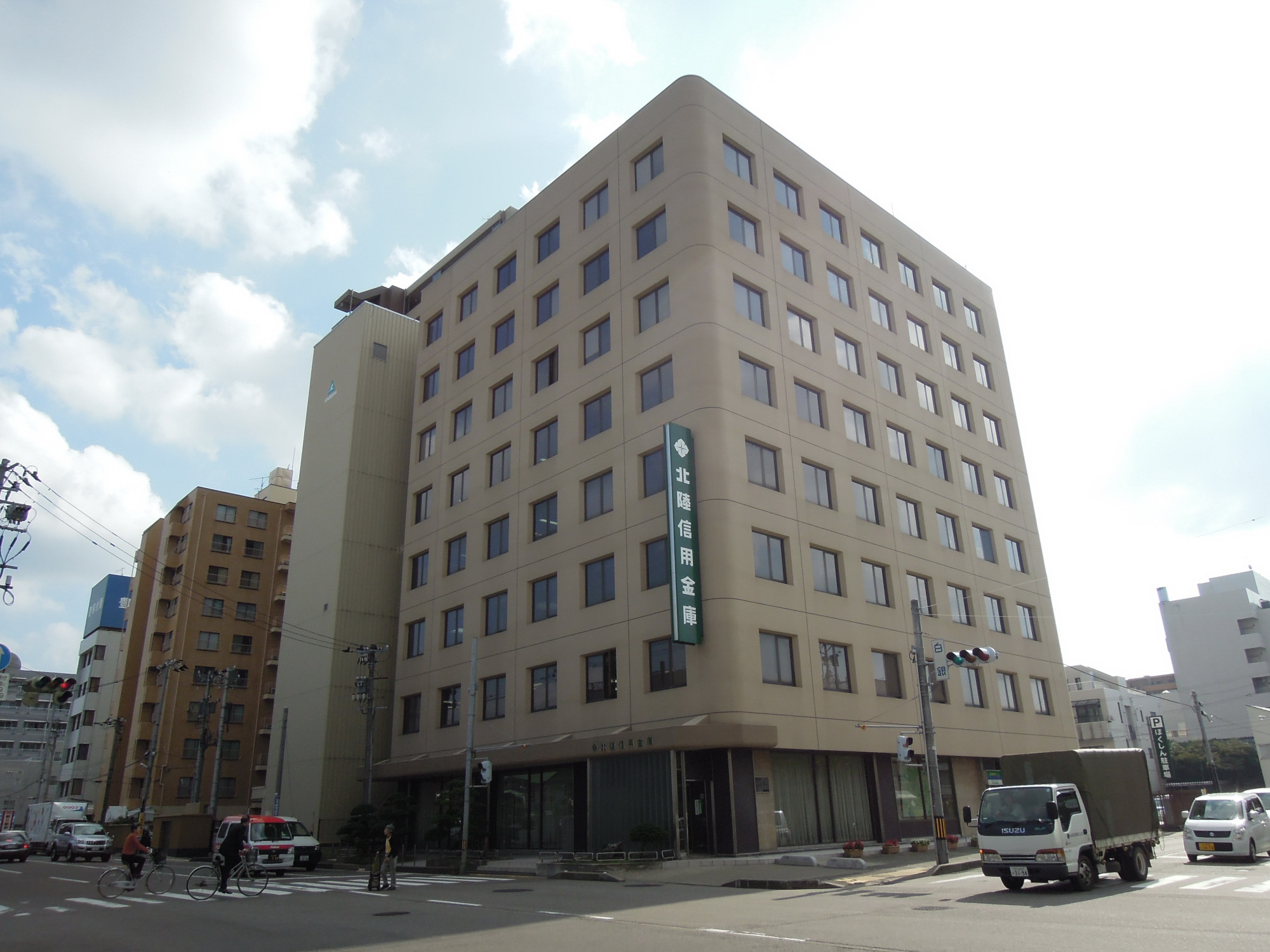 Hokuriku Shinkin Bank (Kanazawa, Ishikawa)